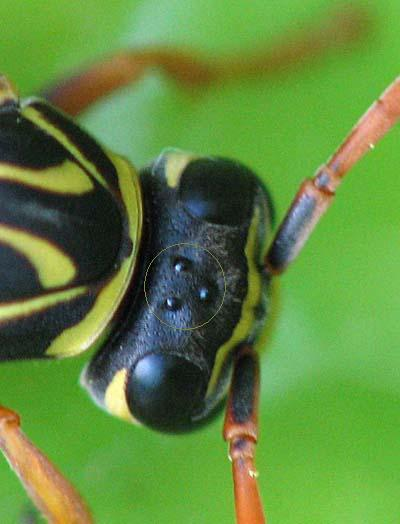 ocelli on Polistes wasp, Israel.